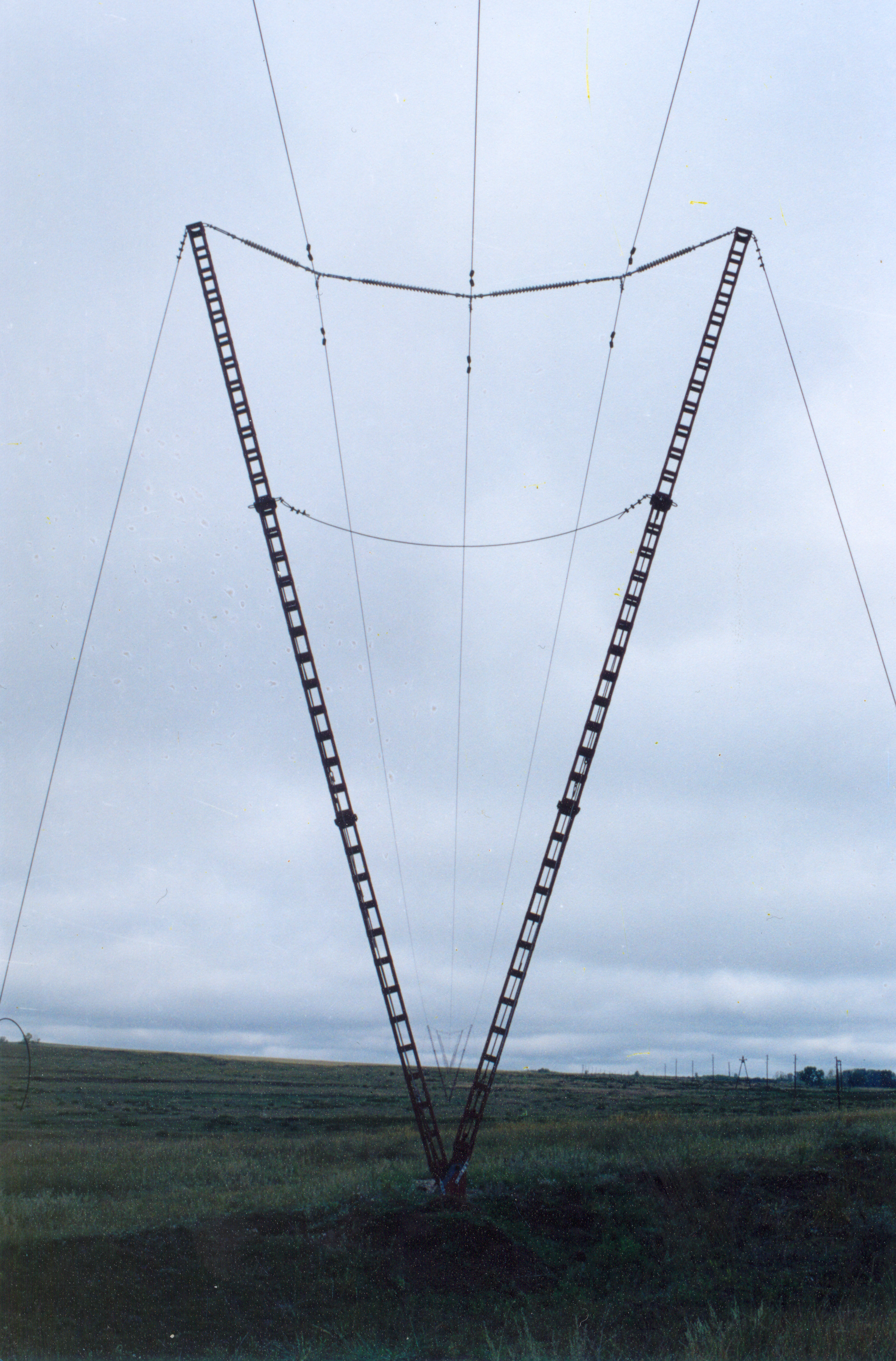 Guyed support structure (design by ELSI) for a single-circuit 110 kV power line in Russia